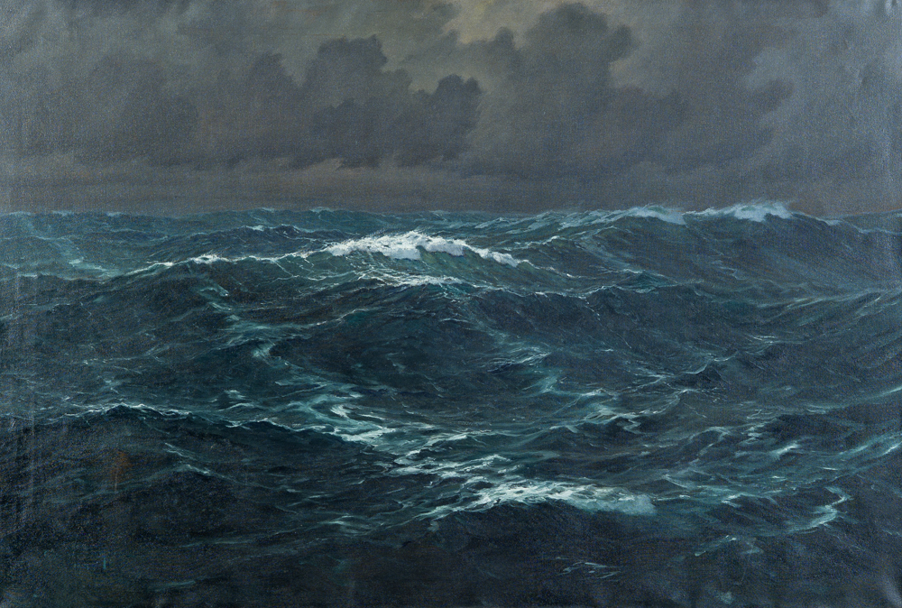 Marine painting from Fritz W. Schulz; Roaring Sea